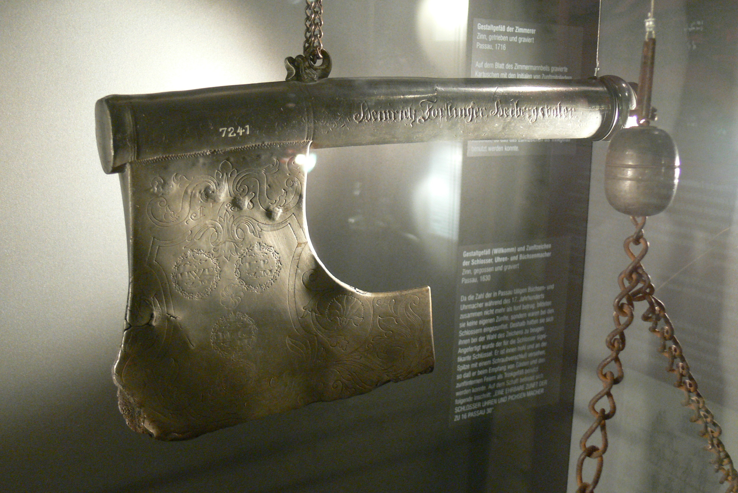 Oberhausmuseum ( Passau ). Sign ( 1716 ) of the carpenter guild in Passau.